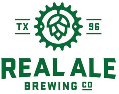 Real Ale Brewing Company logo 2016